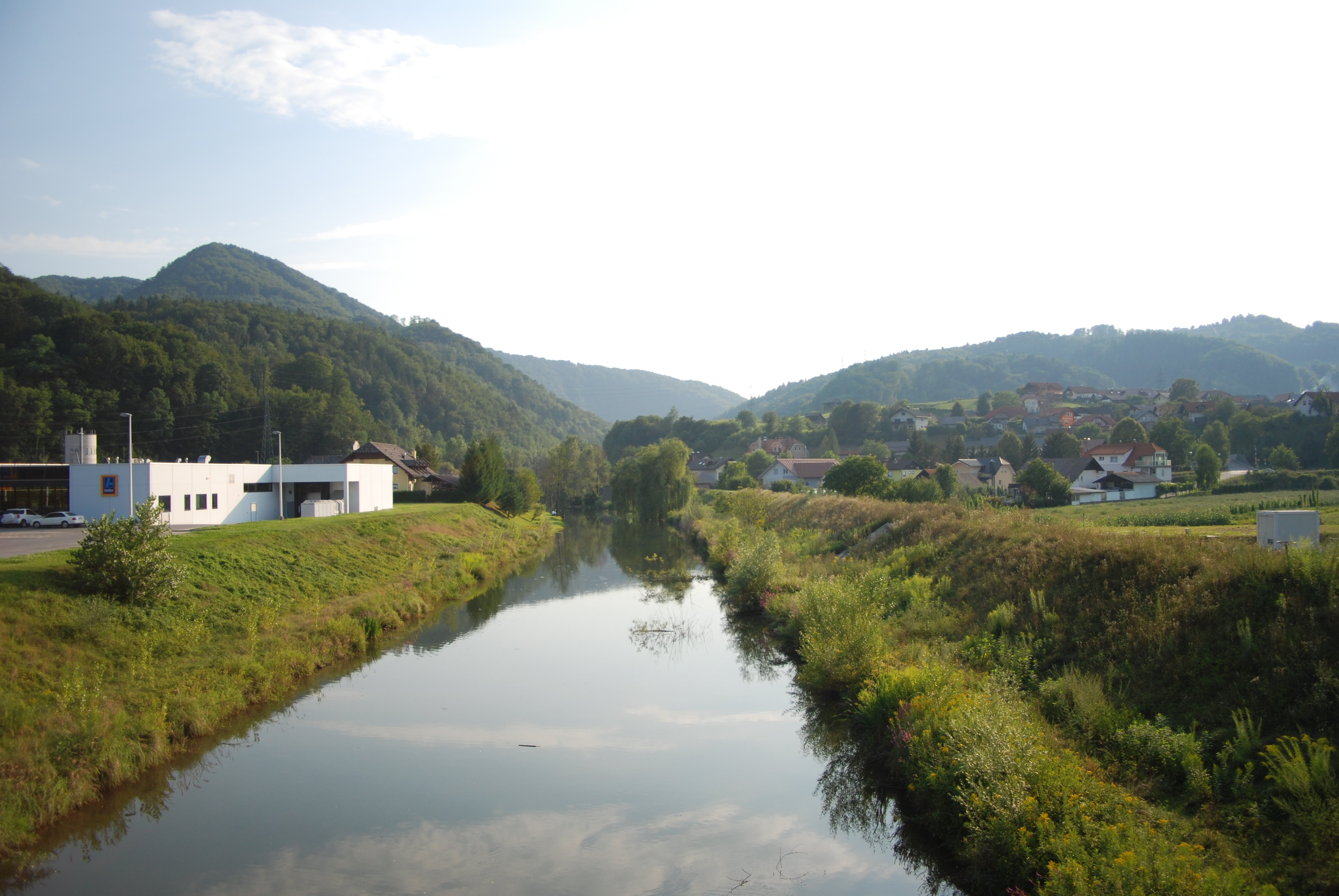 The Mirna River in Dolenji Boštanj, Slovenia. The view from the road bridge at the confluence of the Mirna with the Sava. To the left, the Hofer department store in the village of Radna.